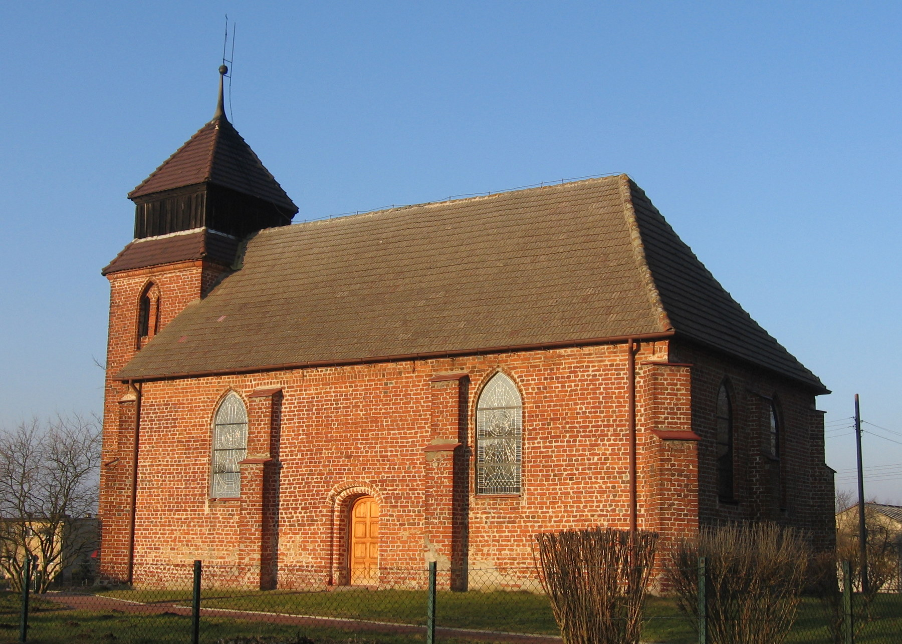 Sacred Heart Catholic Church in Radowo Wielkie, Poland